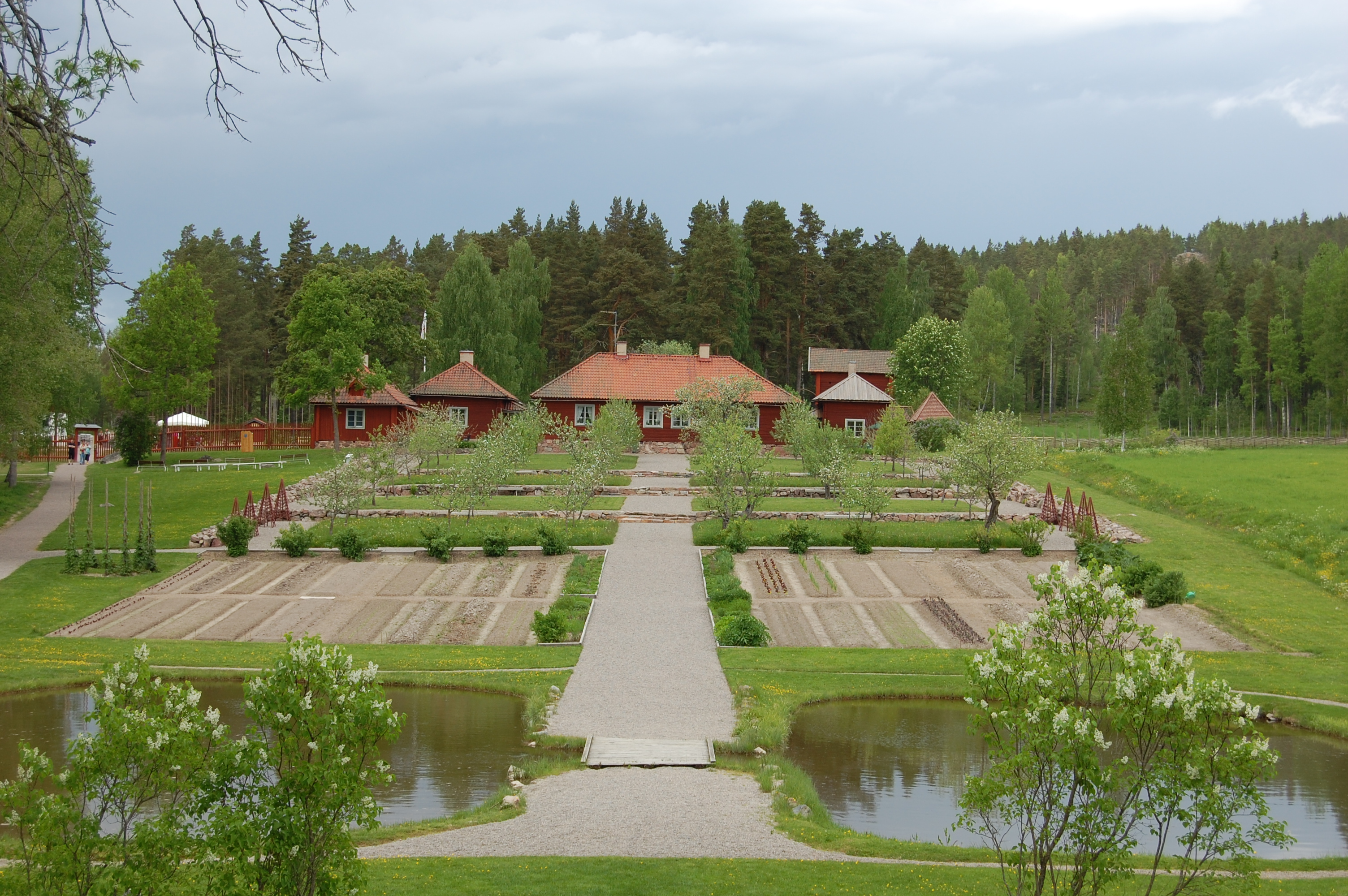 The old Staberg's baroque garden located between the New and the Old Staberg